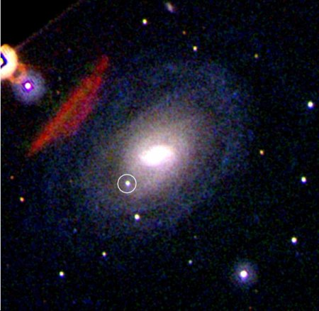 Supernova SN 2005ke imaged by space telescope Swift.